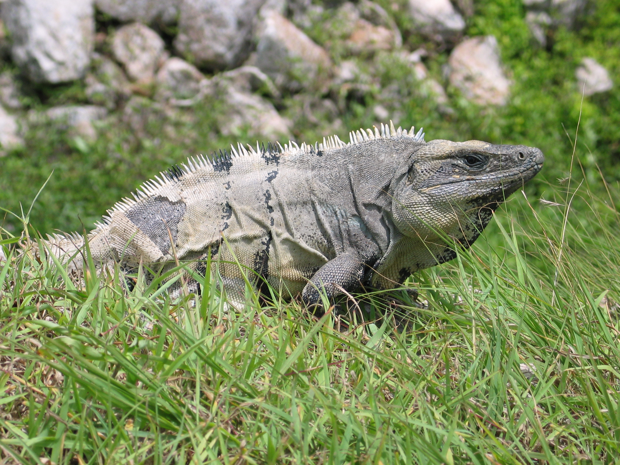 An iguana seen at the Mayan ruins of Uxmal, Mexico.